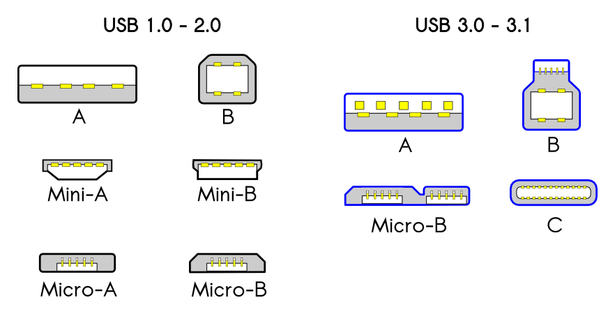 Comparison of USB connectorsSlovenčina: Porovnanie USB konektorov